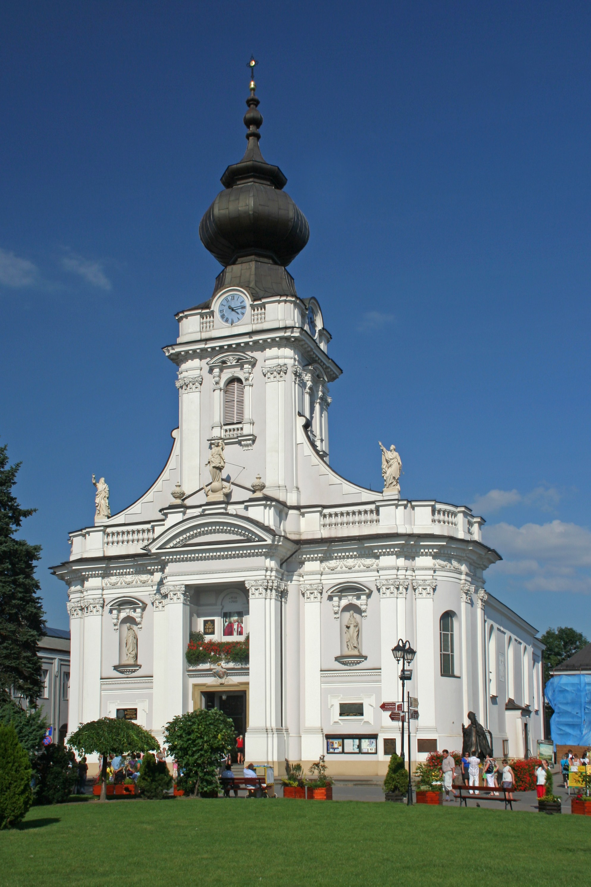 Basilica in Wadowice.